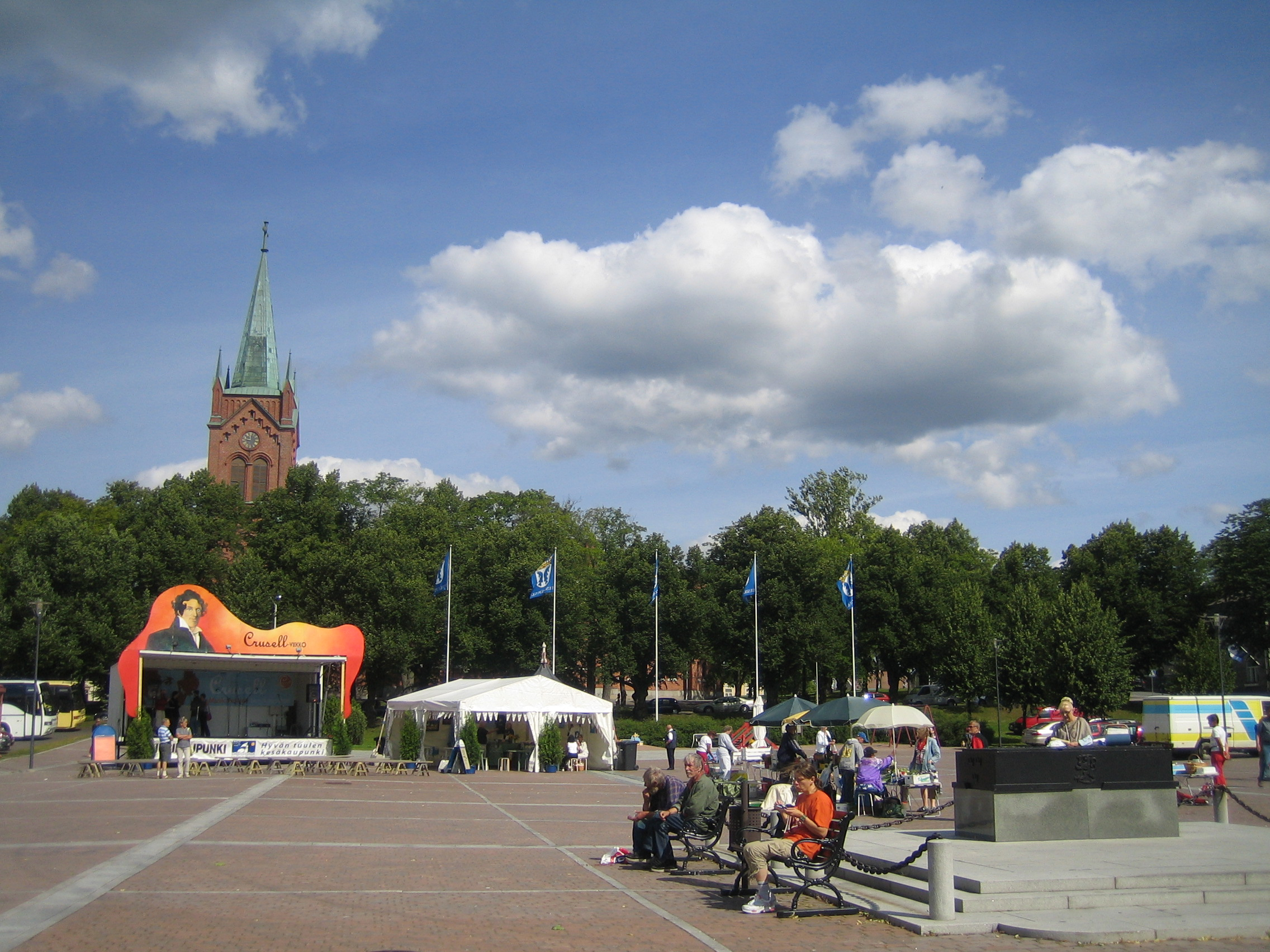 Market place, Uusikaupunki, Finland with the tower of the Uusikaupunki New Church in the background.